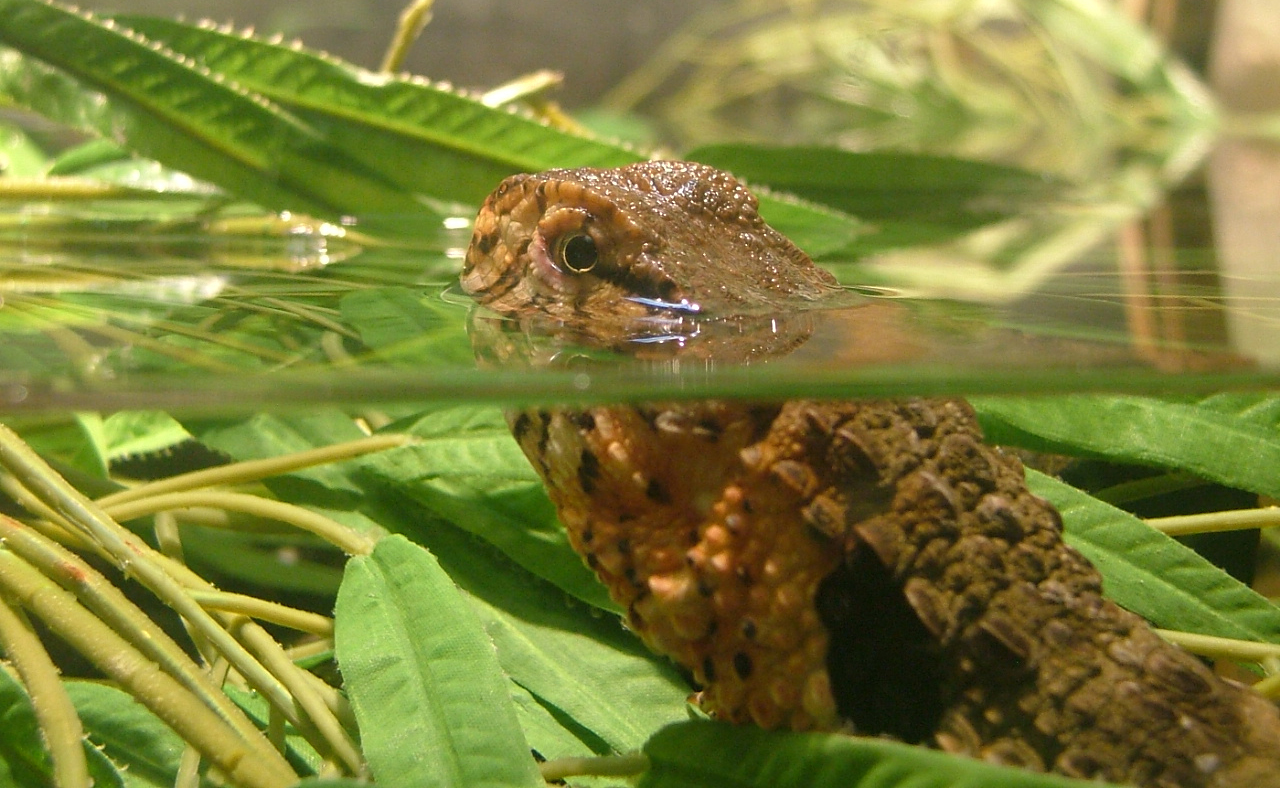 A Chinese crocodile lizard in a hunting posture.